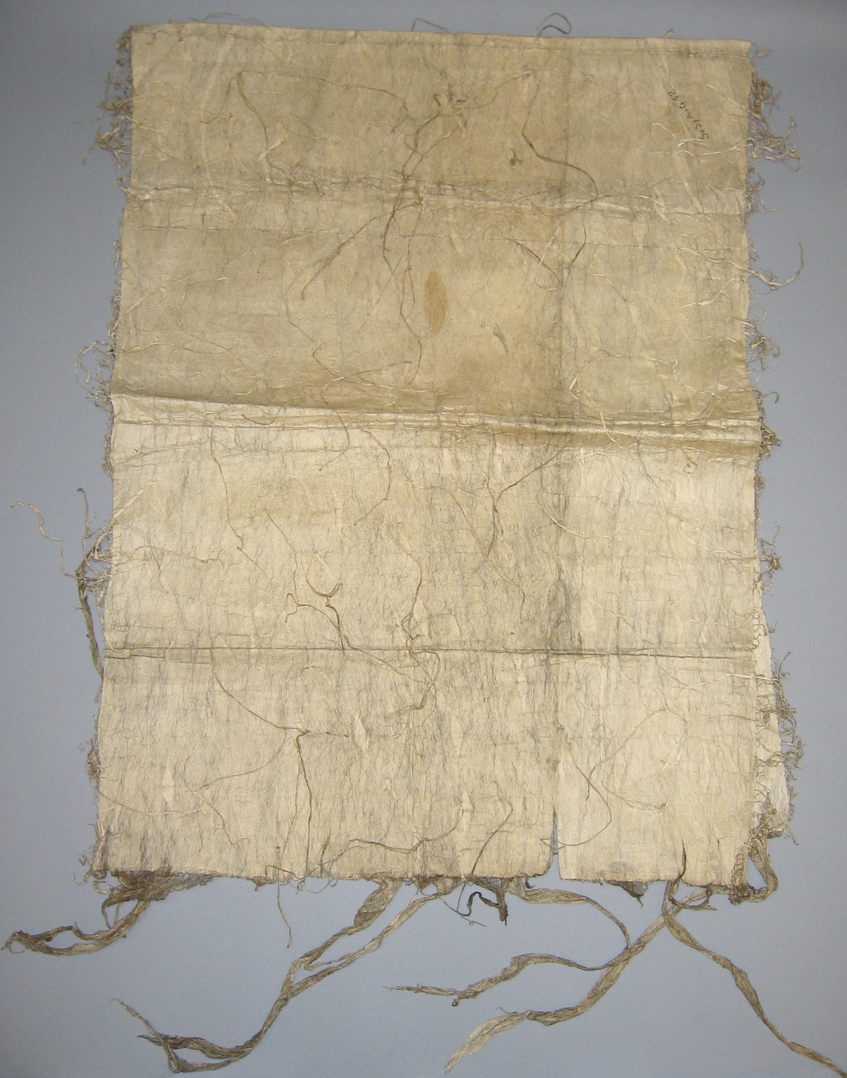 Bark cloth (Tapa) from Fiji.